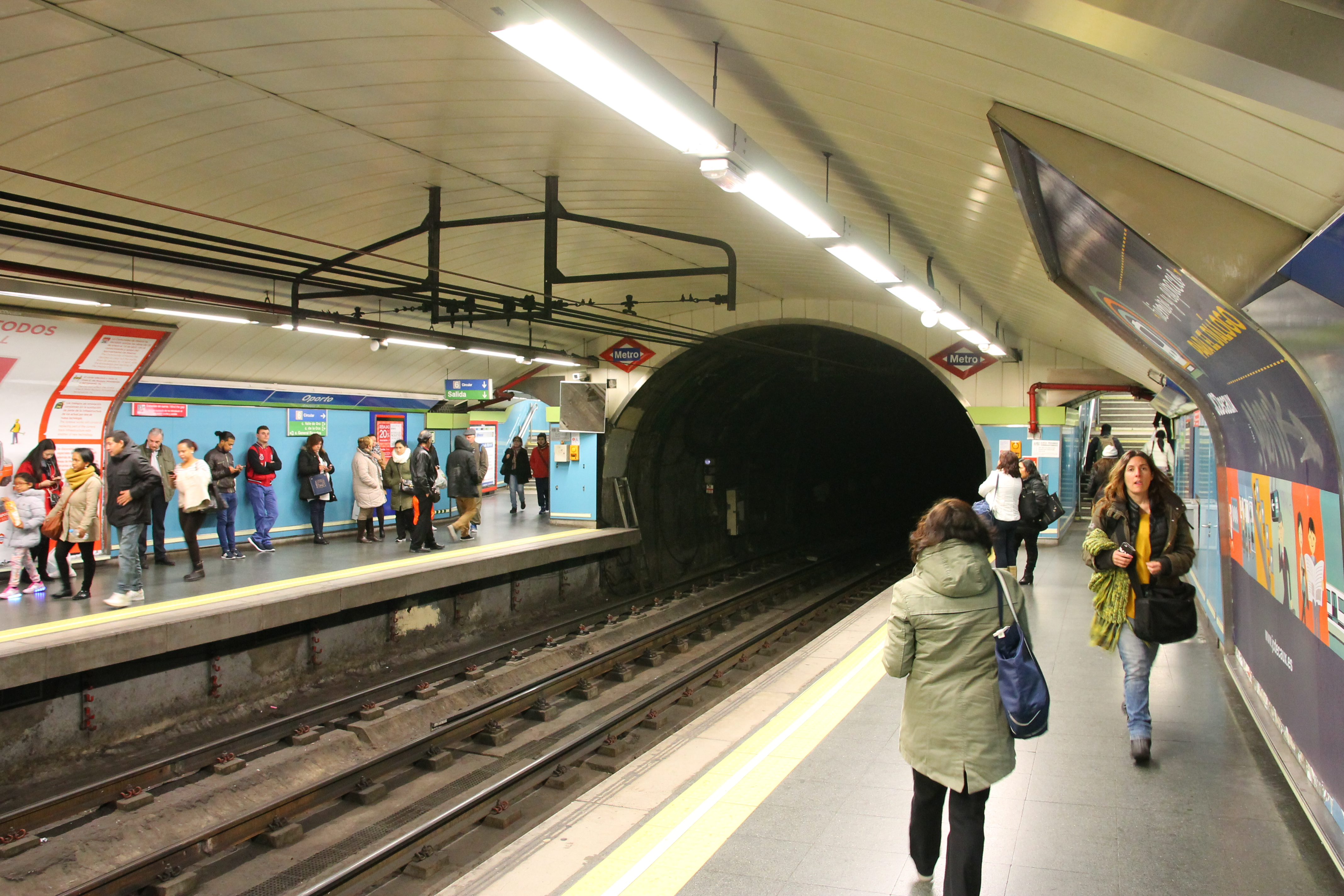 Estación de Oporto